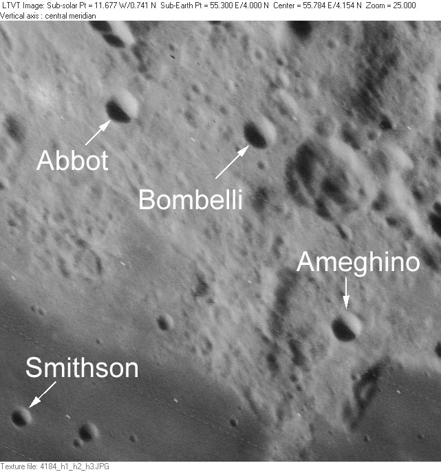 Craters Abbot, Bombelli, Smithson and Ameghino